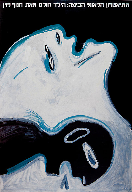 Poster for "Dreaming Child" by Hanoch Levin